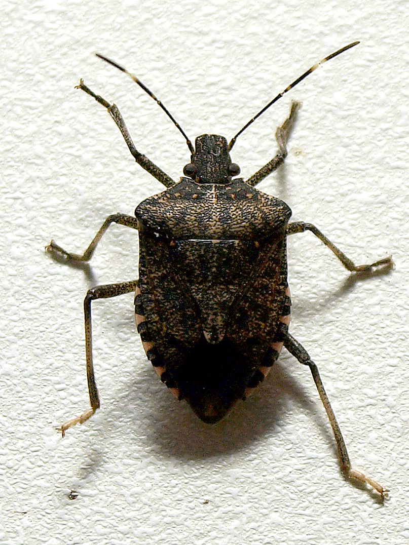 Close up view of a Brown marmorated stink bug in a home.